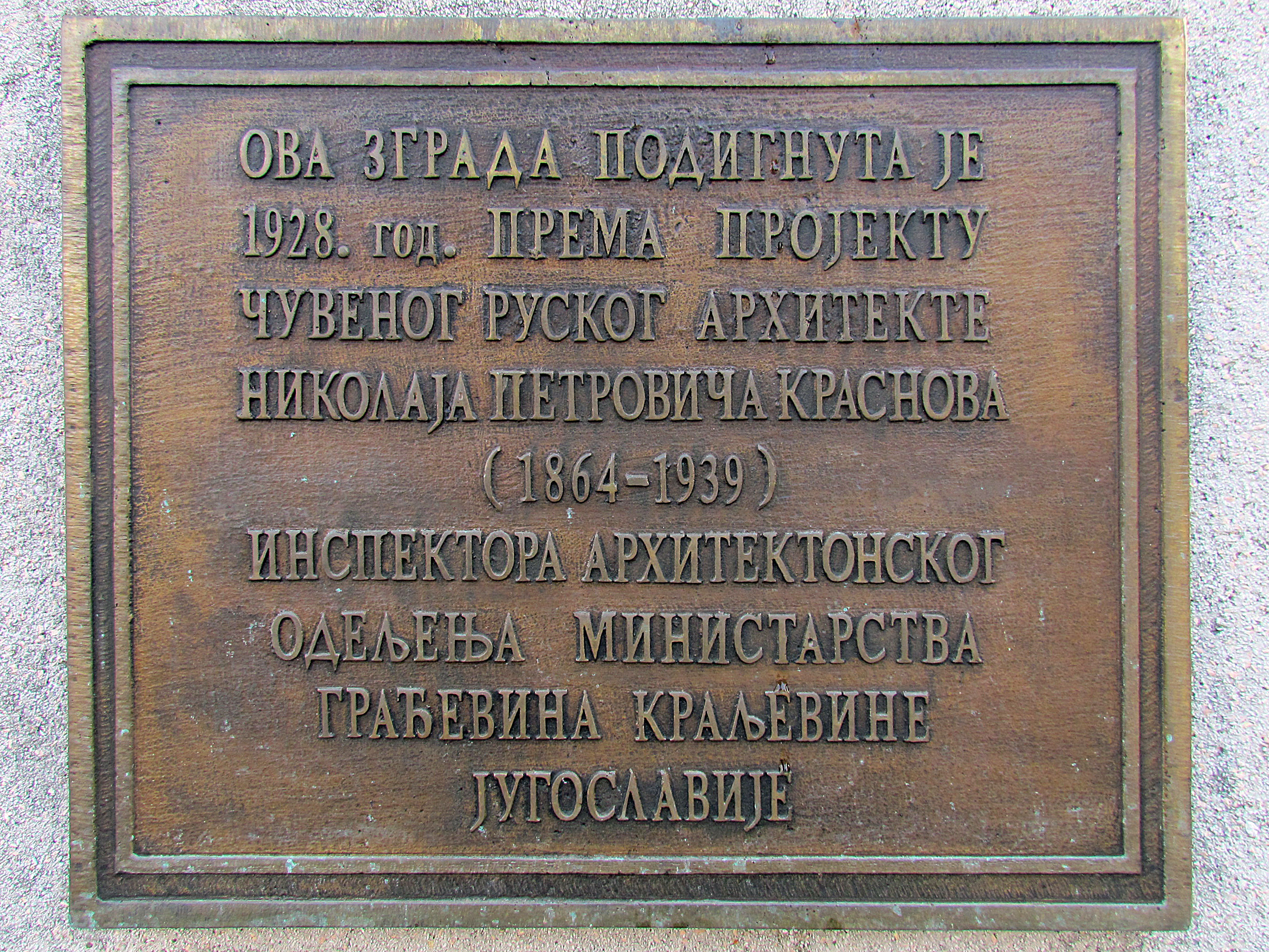 Informations about building of the Serbian Archives in Belgrade